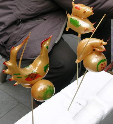 Traditional handicraft Chinese candies.